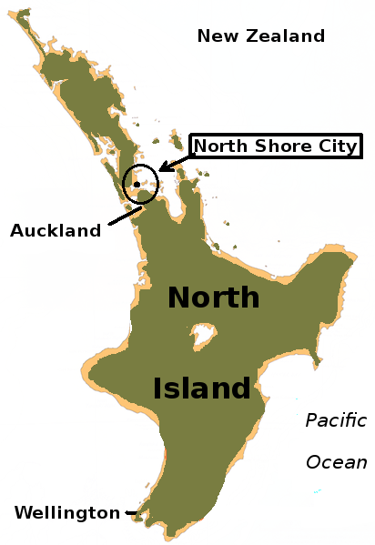 Location map of Cape Reinga, Far North, Northland, North Island, New Zealand